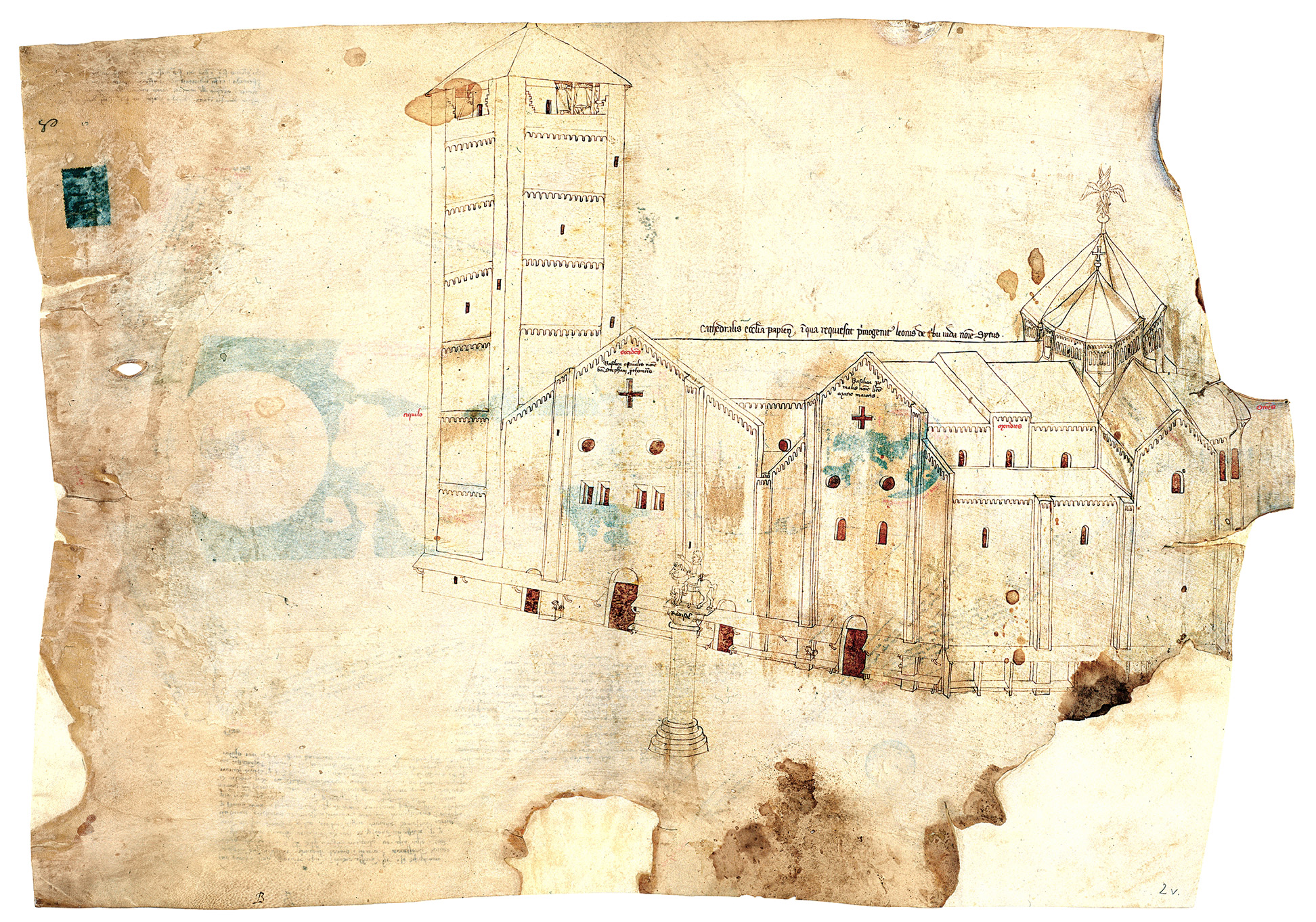 Drawing Cathedral of Pavia by Opicinus de Canistris, Avignon, France; 1335–50